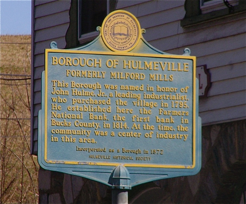 Historial marker in Hulmeville, Pennsylvania.